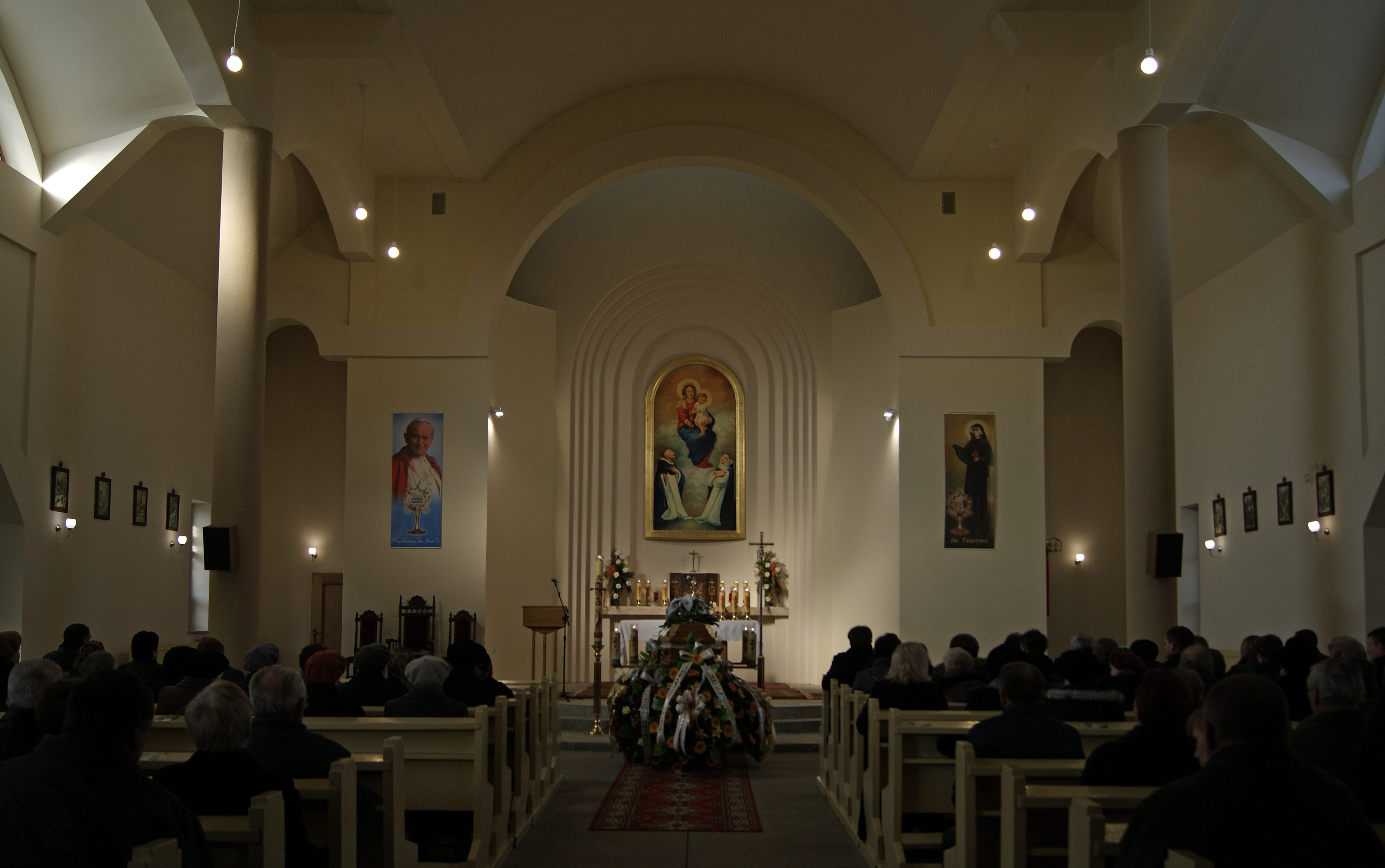 Church of Our Lady of the Rosary (interior), Gromiec village, Chrzanów County, Lesser Poland Voivodeship, Poland